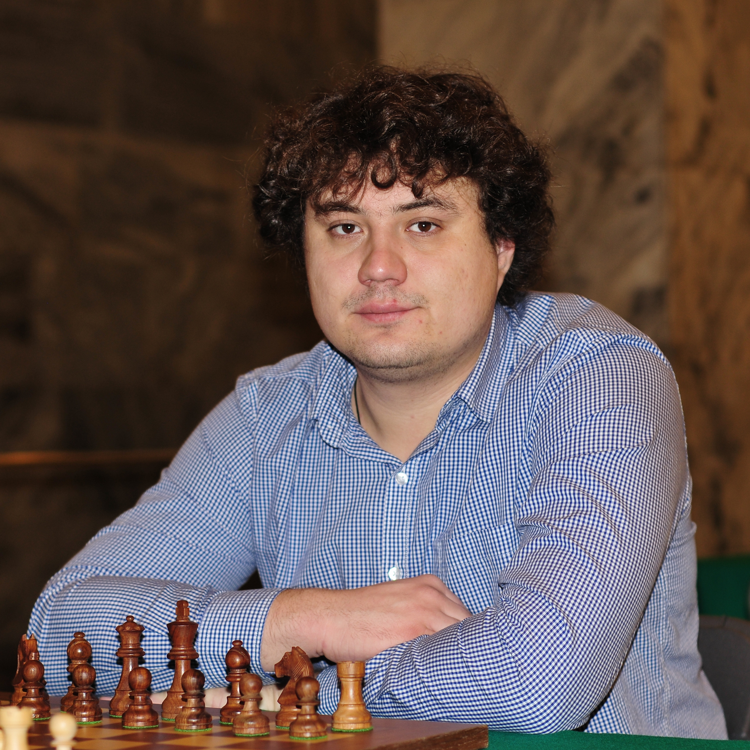 GM Anton Korobov, European Rapid Chess Championship, Warsaw 2013.